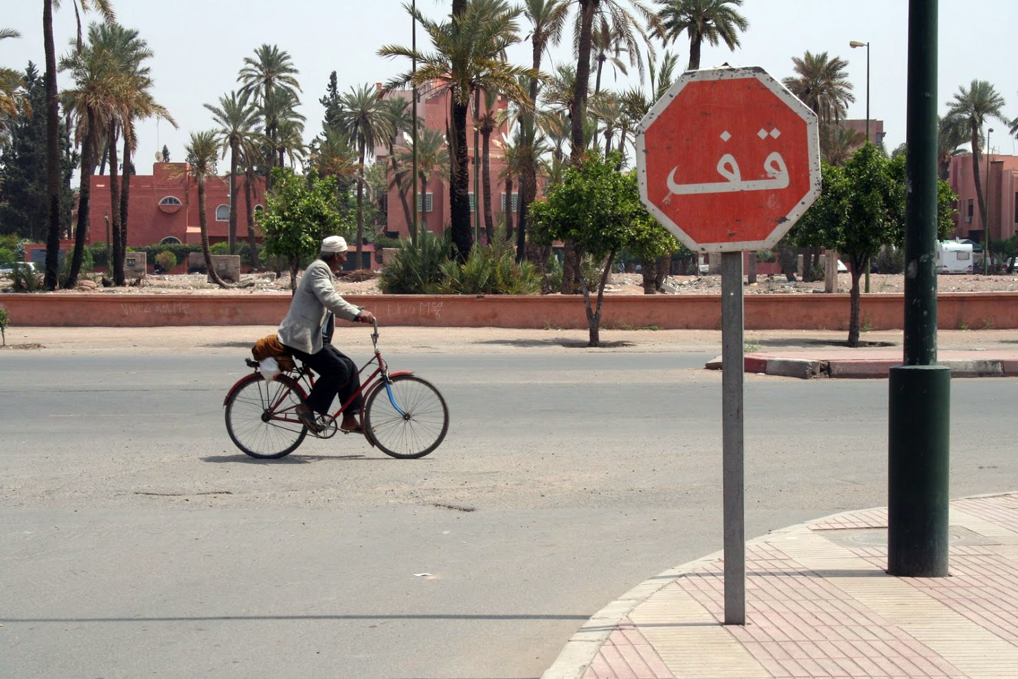 To hot to cycle This is an image with the theme "Africa on the Move or Transport" from: Morocco